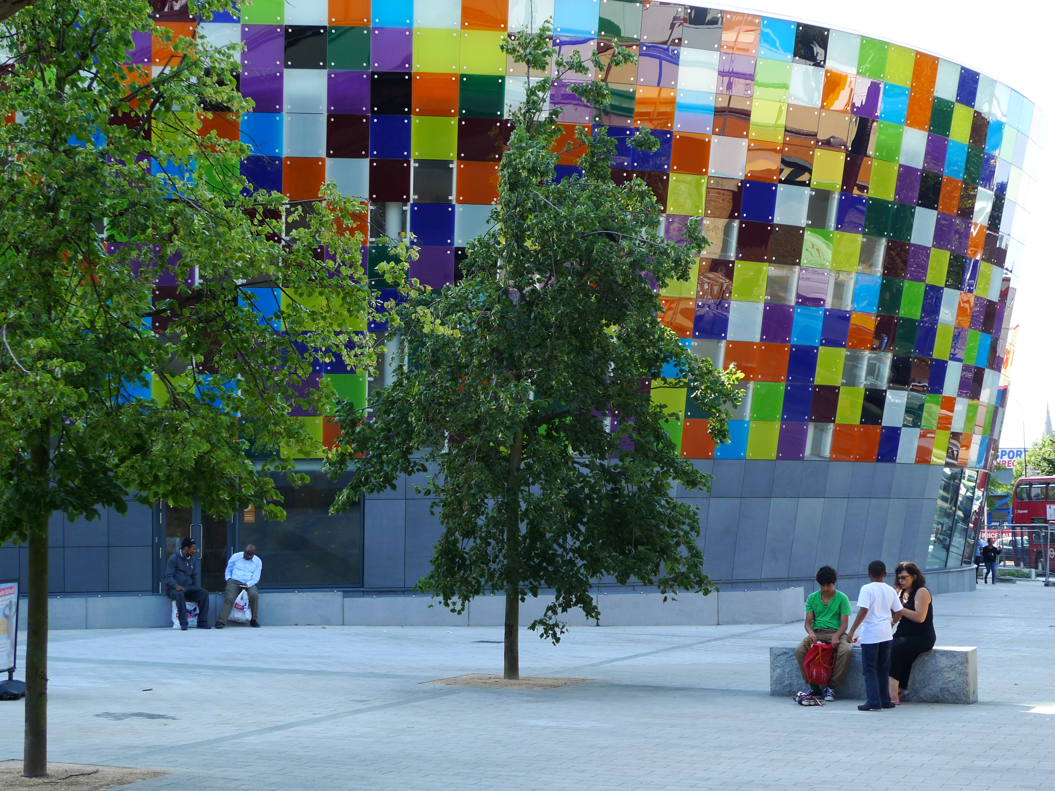 A palette of 1,800 glass ‘pixels’ form a multicoloured grid across the vast curved façade. The grid is backlit, fitted with sensors and through computer programming, responds to the level of external sound – from traffic noise to the human voice – creating a night façade in constant modulation.